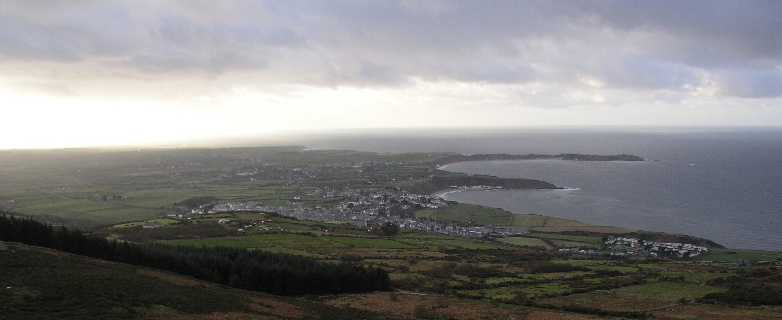 Nefyn and Morfa Nefyn and the twin bays of Nefyn and Porthdillaen, North Wales, UK Photo by R Cox, February 2005